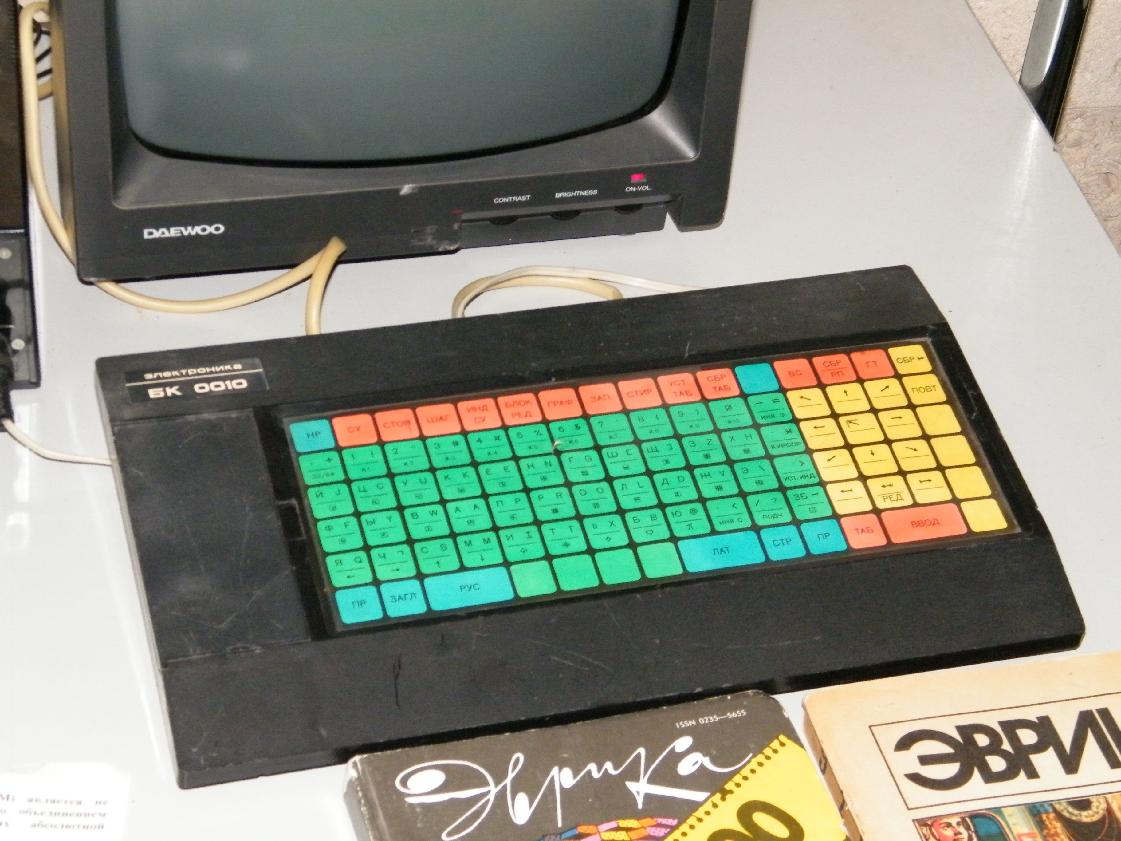 BK-0010